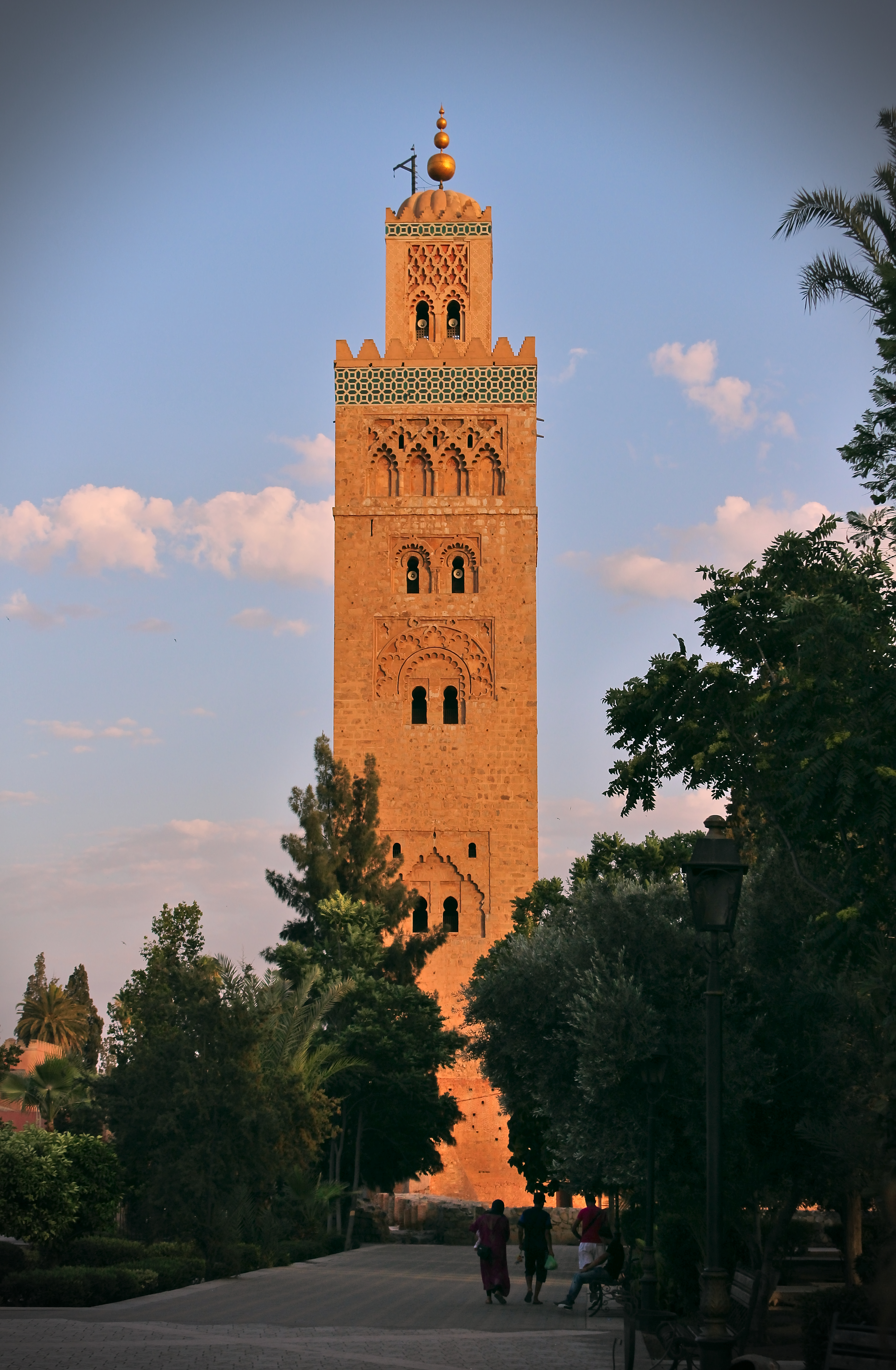 The Koutoubia Mosque at the sunset, Marrakech, Morocco.